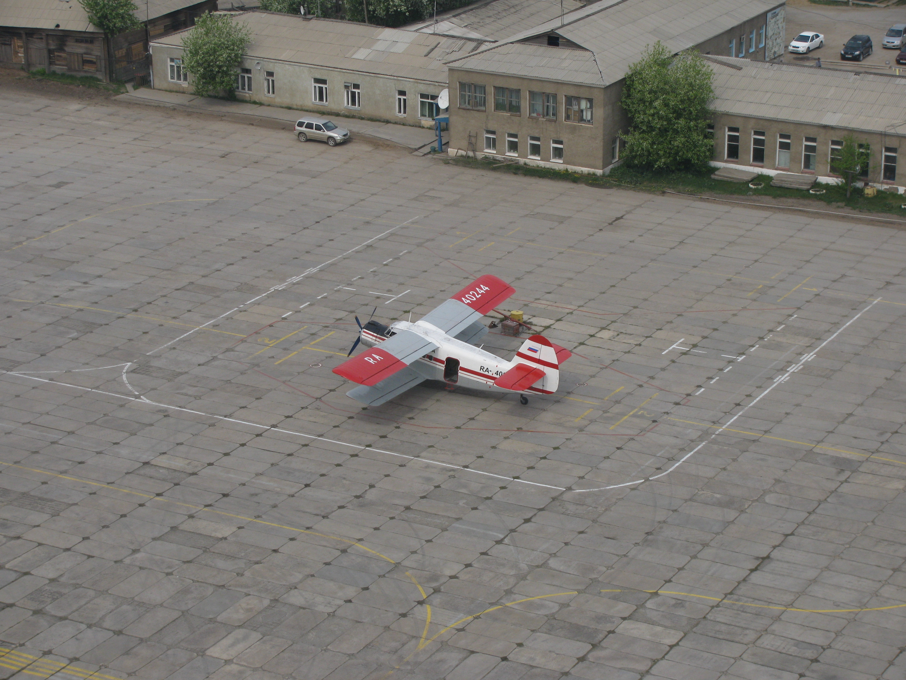 Boguchany Airport, Boguchansky District, Krasnoyarsk Krai, Russia